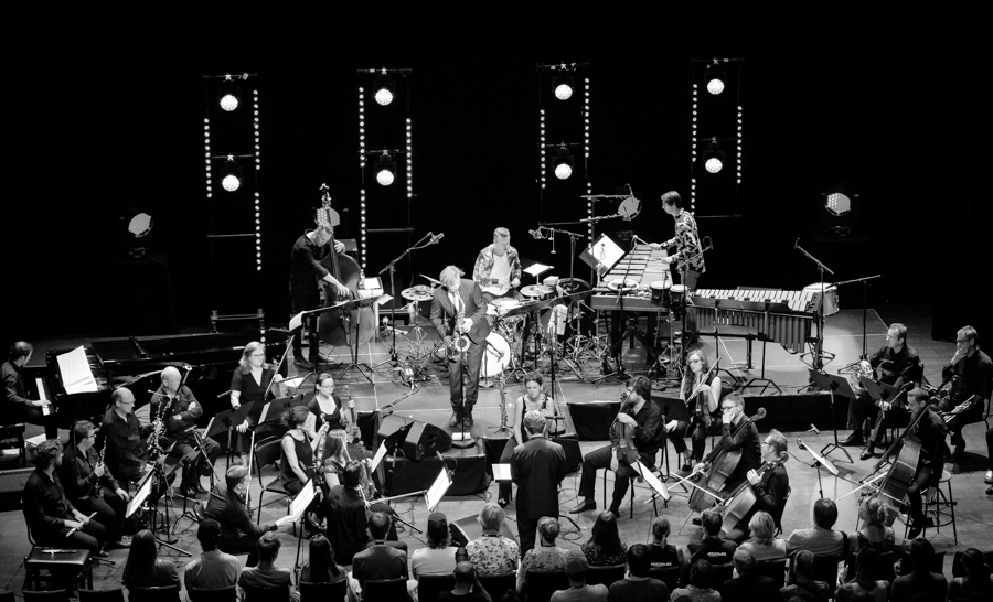 Marius Neset and London Sinfonietta. The concert was part of Kongsberg Jazzfestival and took place on 04. July 2018 in Kongsberg. Lineup: Marius Neset (saxophone) Ivo Neame (piano) Jim Hart (vibraphone and percussion) Petter Eldh (double bass) Anton Eger (drums) Geoffrey Paterson (conductor) London Sinfonietta (orchestra)